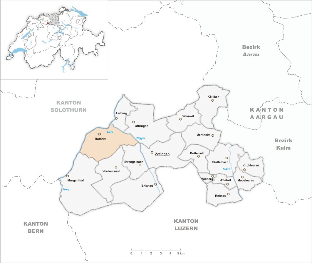 Municipality Rothrist